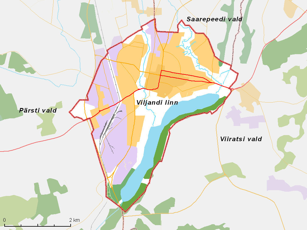 Map of municipality in Estonia